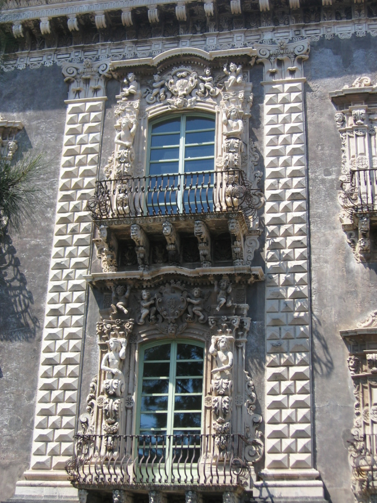 Catania (Italy) - The University. Picture by Urban, august 2005.